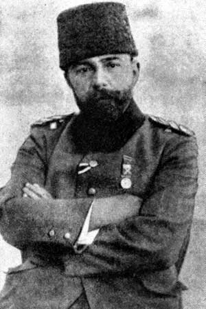 Ahmed Cemal Paşa